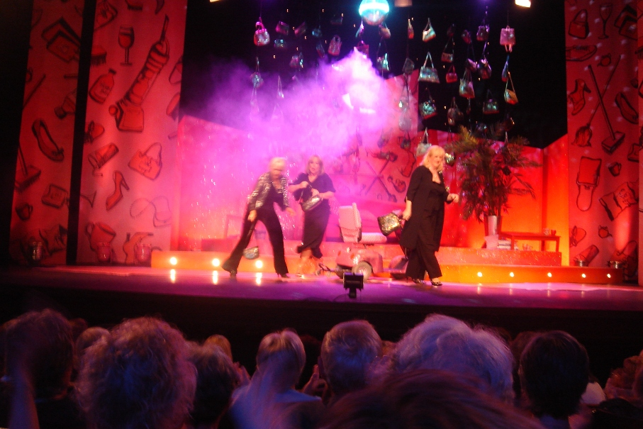 Dillie Keane, Linda Robson and Jenny Eclair performing in Grumpy Old Women Live on the 23rd June 2008. Taken by me (Adaircairell (talk) 14:58, 28 June 2008 (UTC)), medium quality.